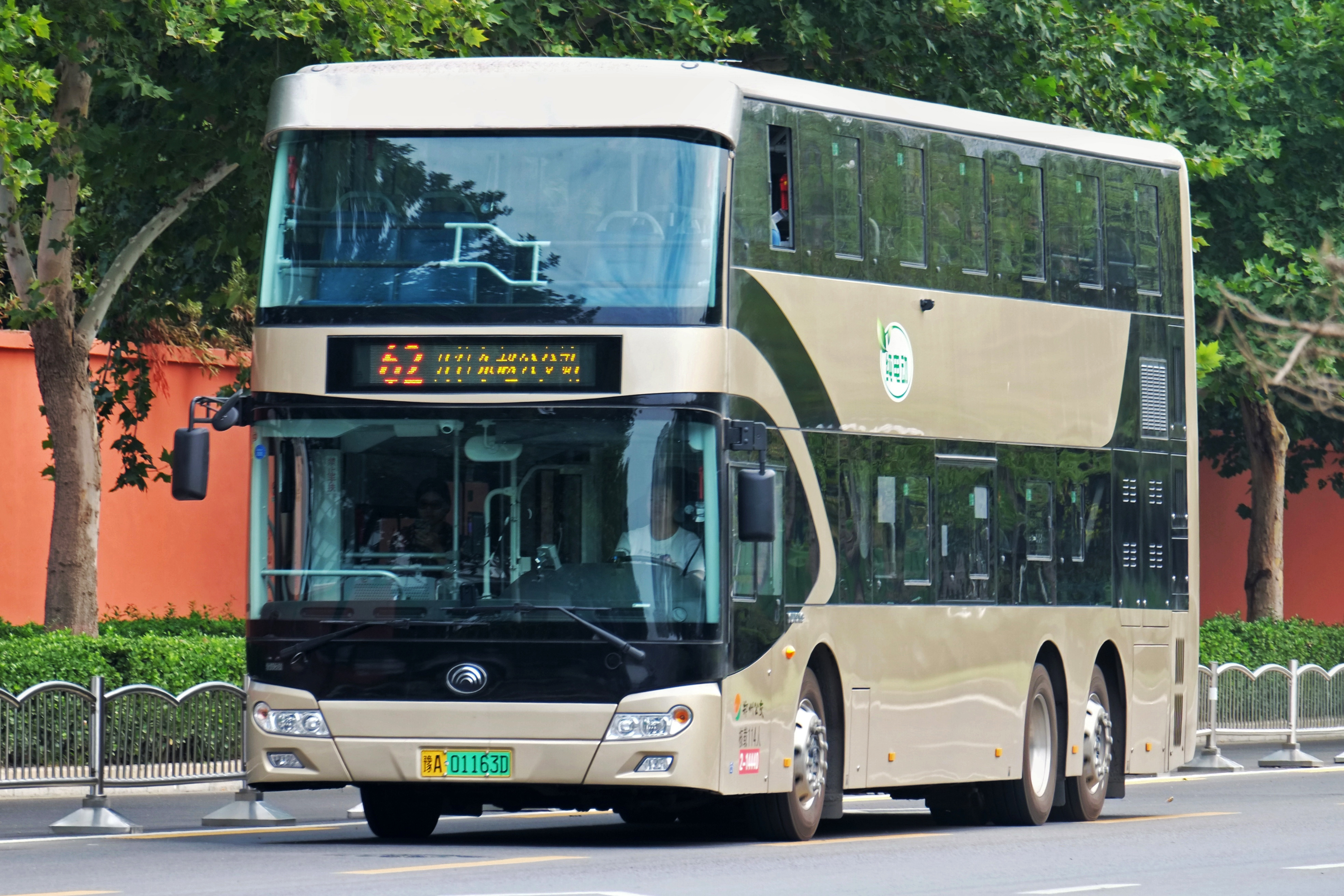 Yutong E12DD on Zhengzhou Bus Route 62